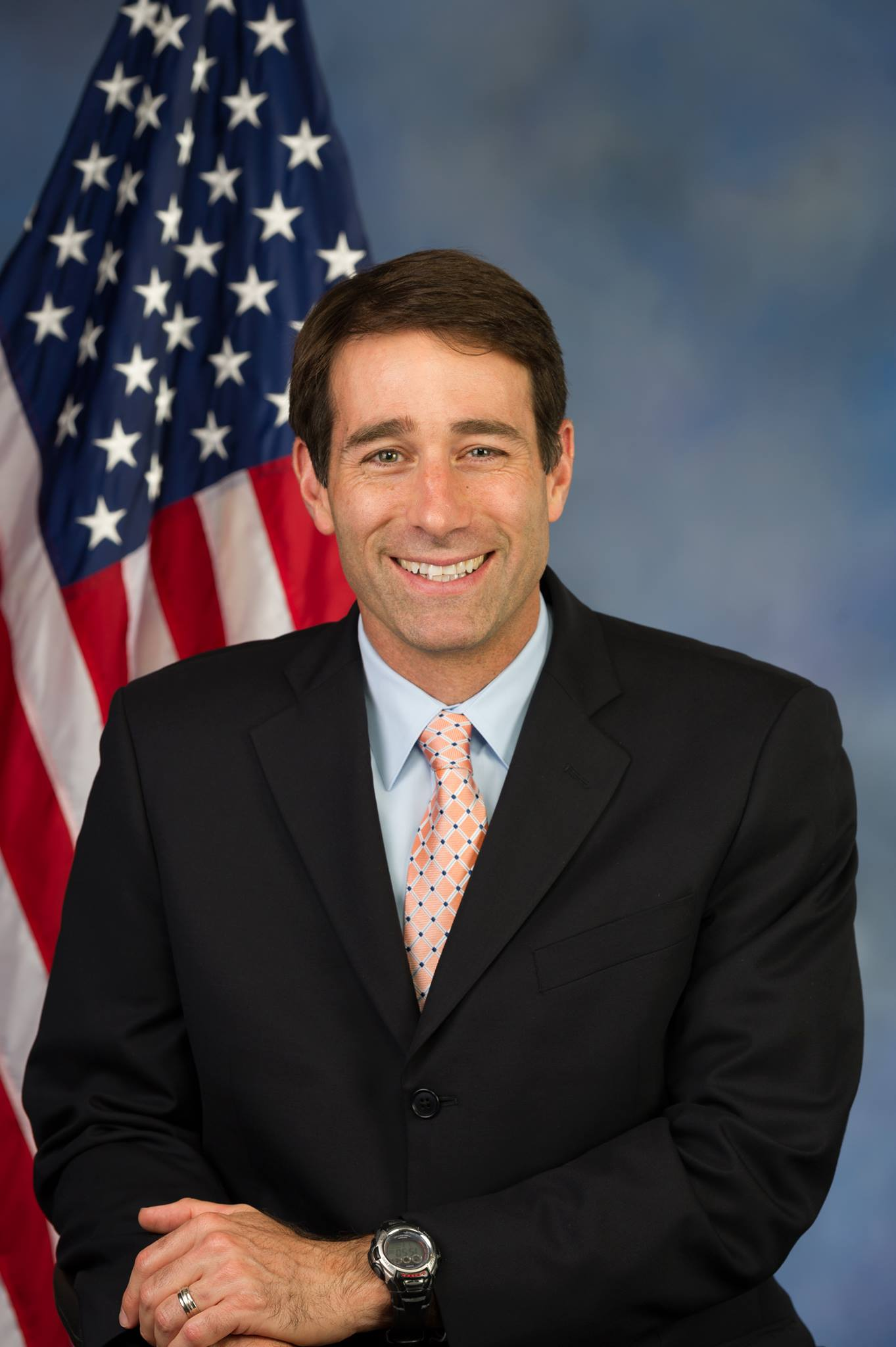 Garret Graves official portrait, 2015